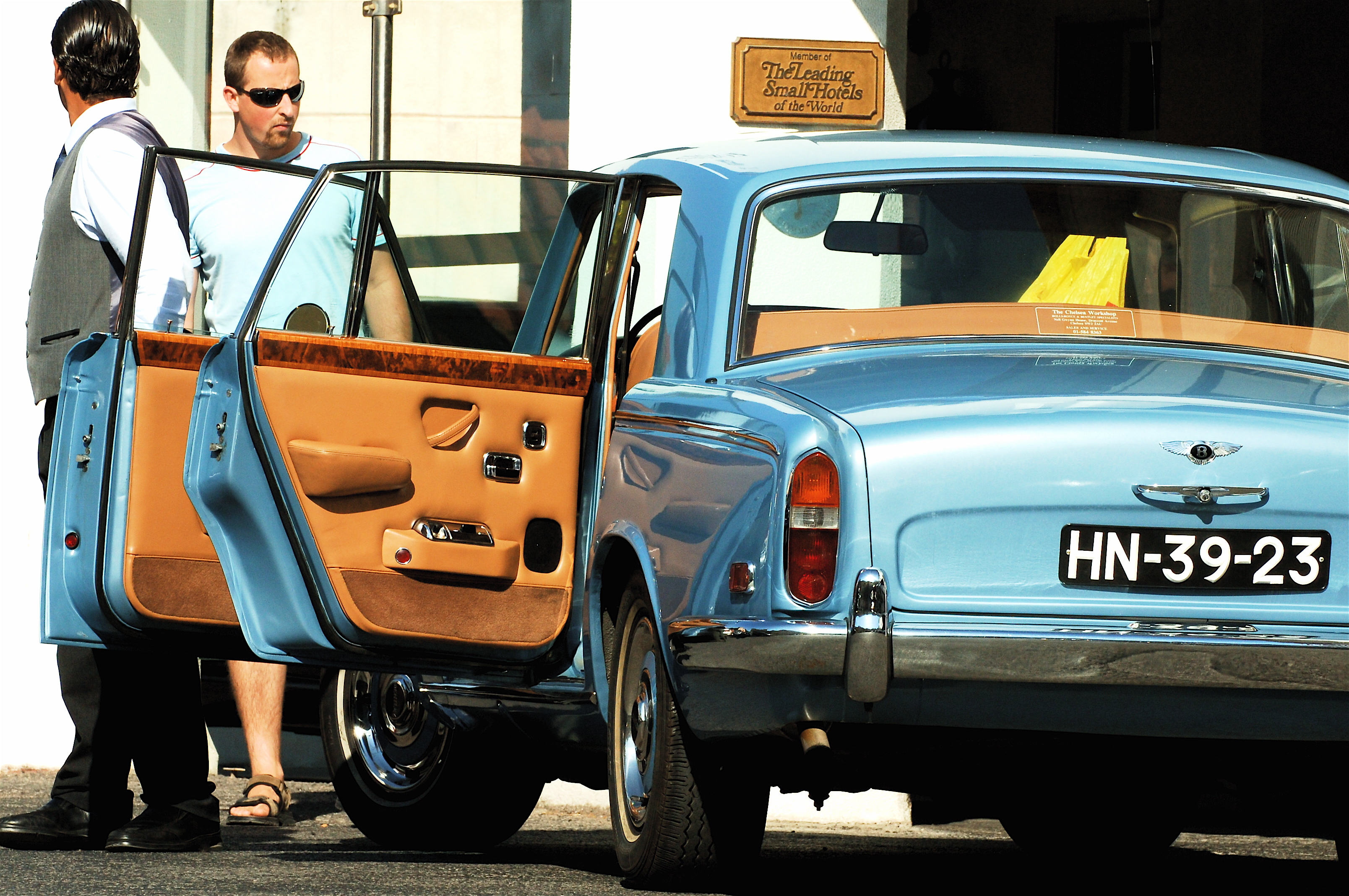 Bentley T-Type in Cascais, Portugal